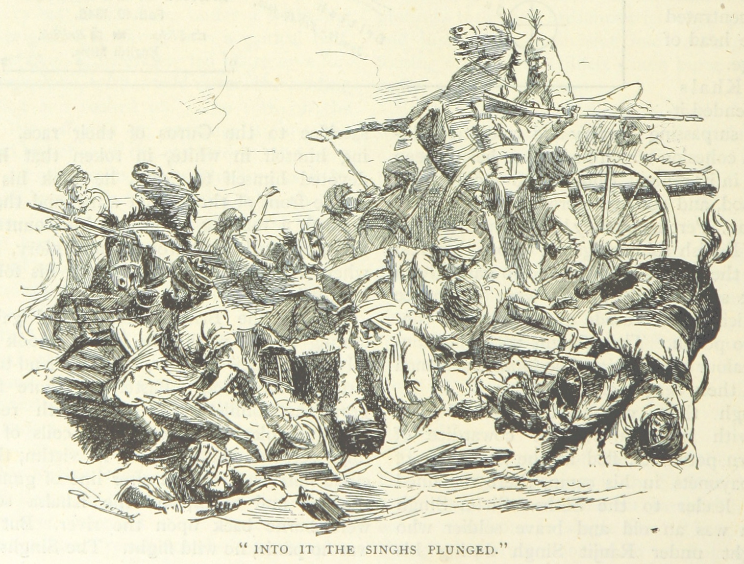 The bridge over the Sutlej river collapses as Sikh soldiers retreat across it at the 1846 Battle of Sobraon.